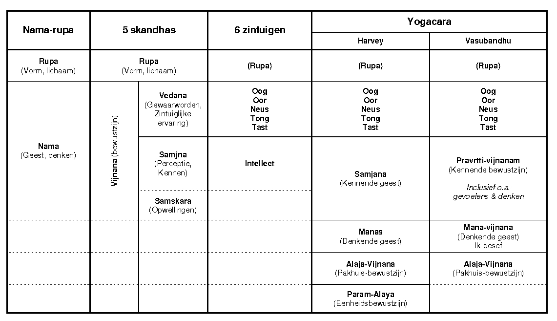 Scheme of buddhist psychology of mind